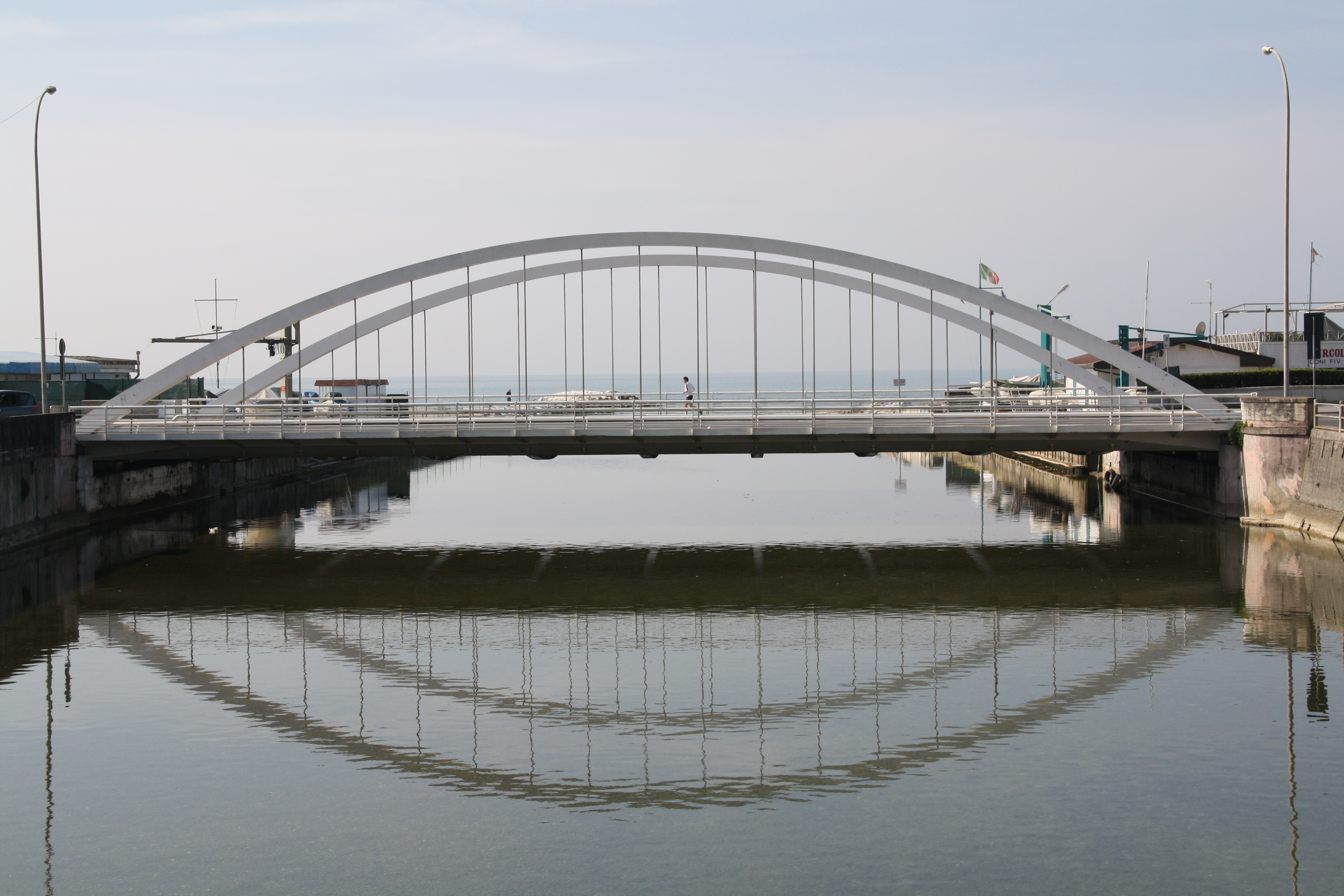 Italy, Tuscany, Marina di Massa. The Frigido River towards the estuary.